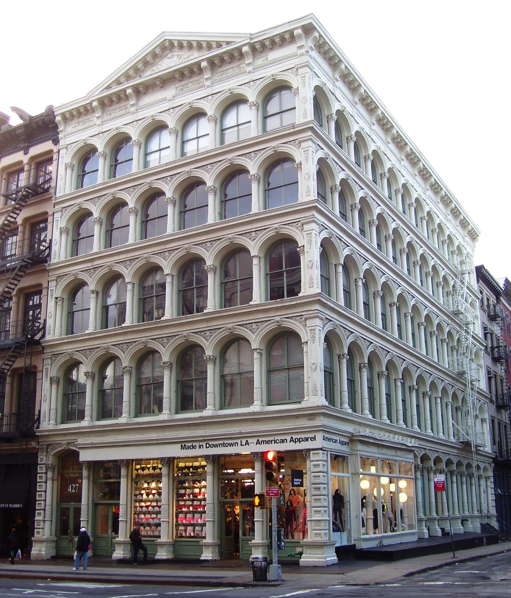 427 Broadway (427-429) on the corner of Howard Street in the SoHo neighborhood of Manhattan, New York City, also known as 43-45 Howard Street) was built in 1870-71 as a warehouse and was designed by Thomas Jackson in the Venetian Renaissance style, with French Renaissance details. The facade is cast iron. The building is located within the SoHo - Cast Iron Historic District. (Source: "NYCLPC SoHo - Cast-Iron Historic District Designation Report")